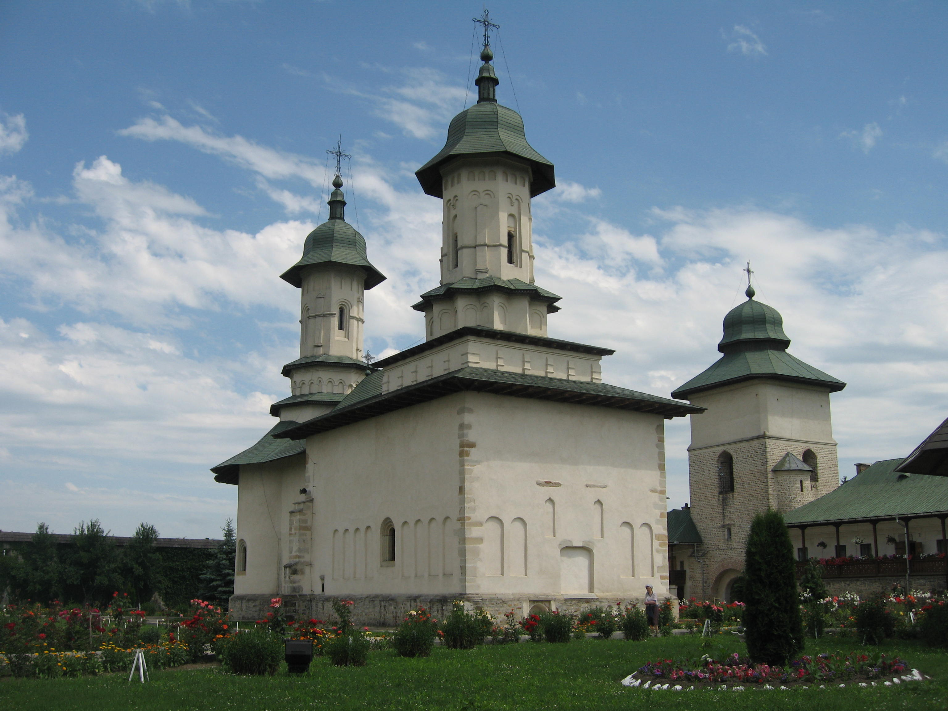 Râşca